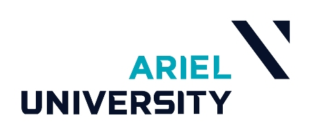 ariel university logo